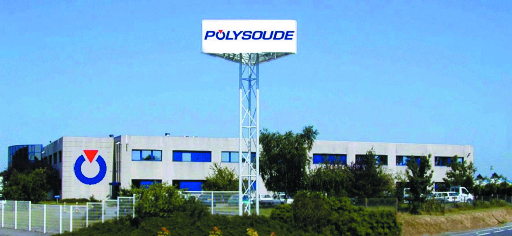 Polysoude's Nantes HQ